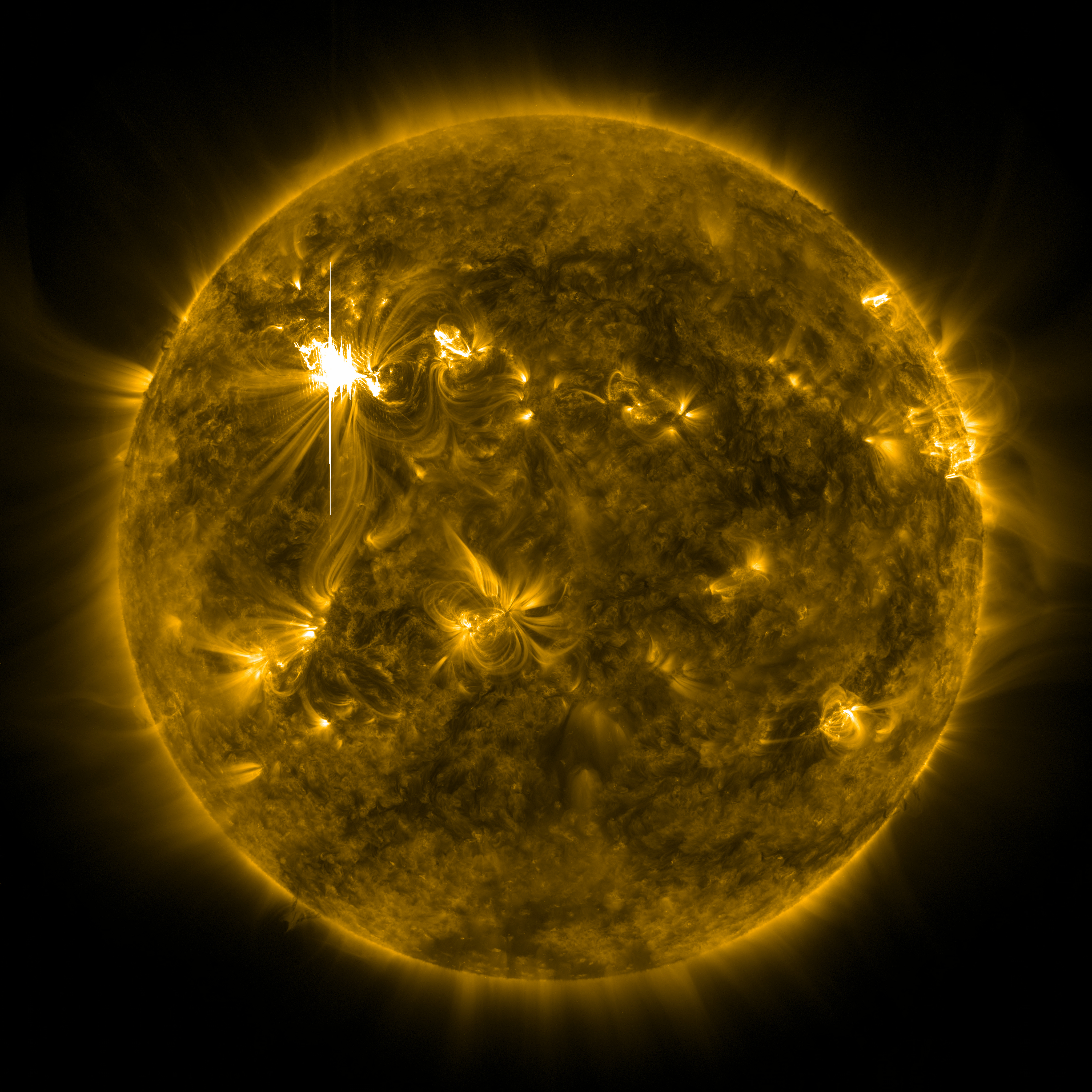 The powerful March 7, 2012 solar flare, which earned a classification of X5.4 based on the peak intensity of its X-rays, is the strongest eruption so far observed by Fermi's LAT. The flare produced such an outpouring of gamma rays — a form of light with even greater energy than X-rays — that the Sun briefly became the brightest object in the gamma-ray sky. See this NASA video for more information about X5.4 and the process behind solar flares producing gamma rays. This is a full disk image of the flare in 171 angstrom extreme ultraviolet light.